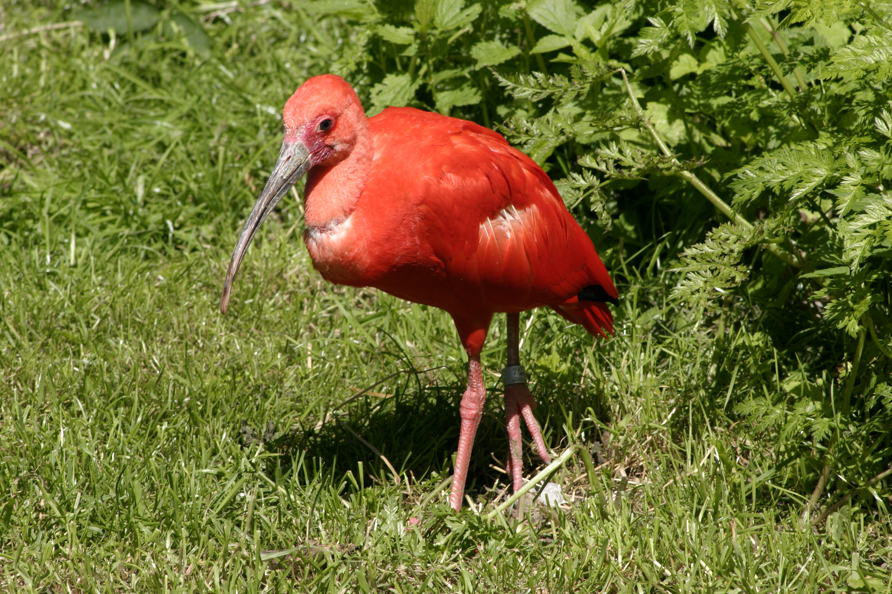 Scarlet Ibis